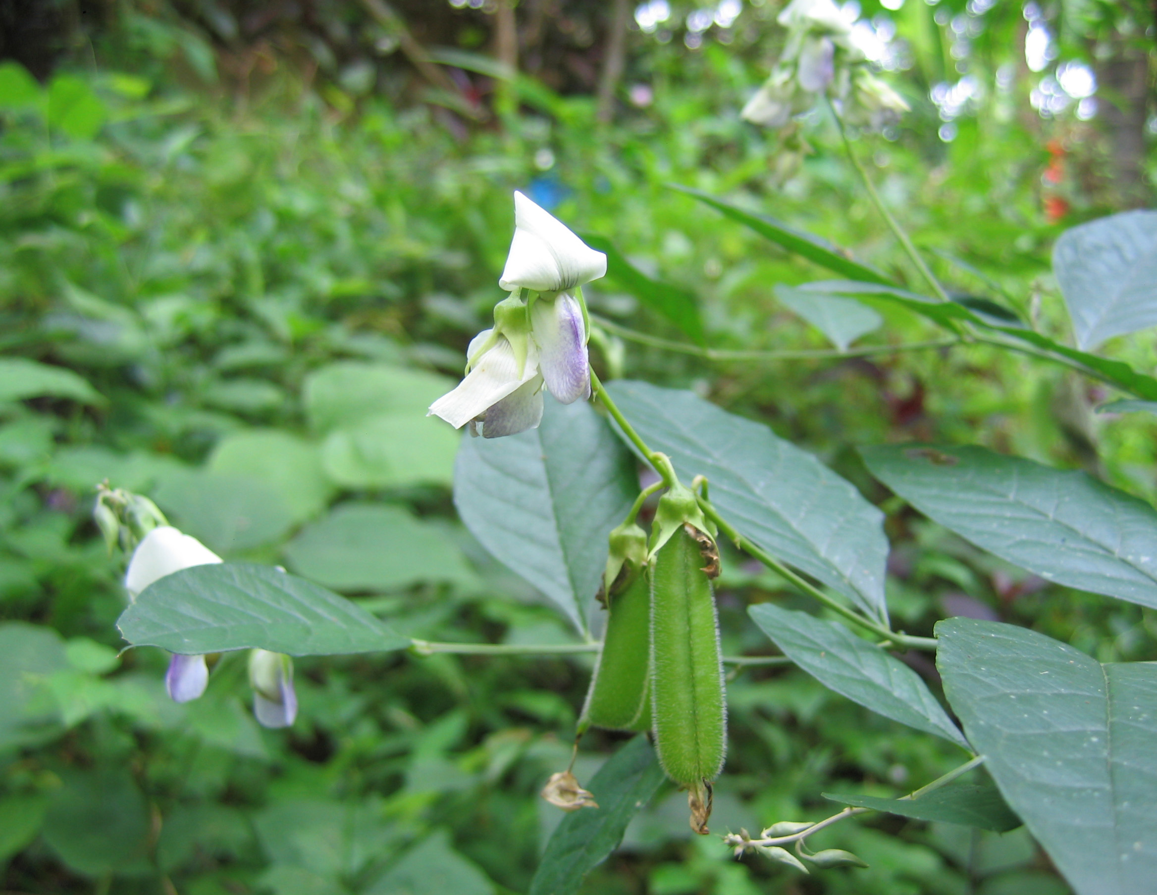 Crotalaria heyneana Graham ex Wight & Arn.